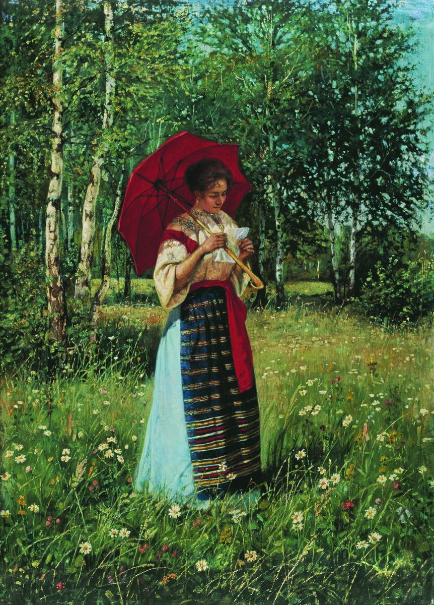 In reading the letter.Oil on canvas. Sumy Art Museum, Ukraine